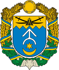 Coat of arms of Kagarlikski Raion, Ukraine.